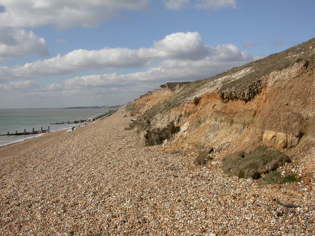 Milford on Sea, Rook Cliff and Hordle Cliff: Pleistocene sand (sandstone), gravel and brick-earth. For information about its geology, The anti-tank defences shown in the background have been removed in the late 2010s in a programme of works by New Forest District Council.